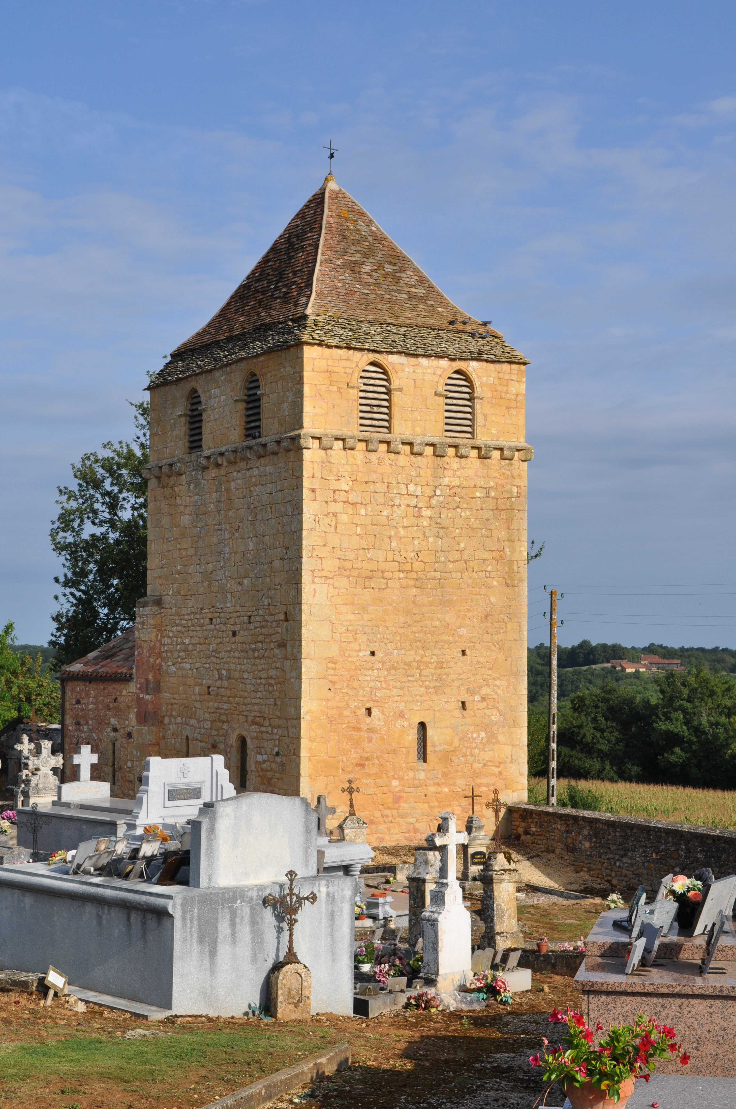 Saint Christophe church in Montferrand du Périgord (DOrdogne)